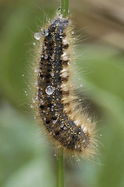 Picture taken in Commanster, Belgian High Ardennes . Species: Euthrix potatoria caterpillar